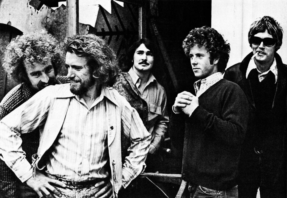 Trade ad for The Flying Burrito Brothers's single "White Line Fever" / "Colorado". To better adapt it to his respective Wikipedia article, the ad was cropped and cleaned in a graphics editing program. The original can be viewed at the source below.